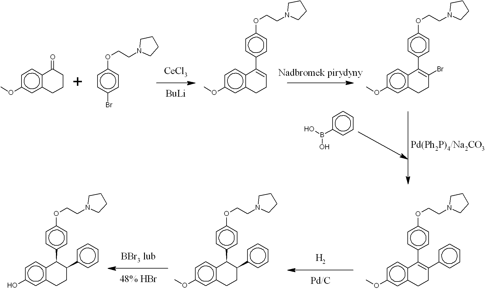 Lasofoxifene synthesis scheme